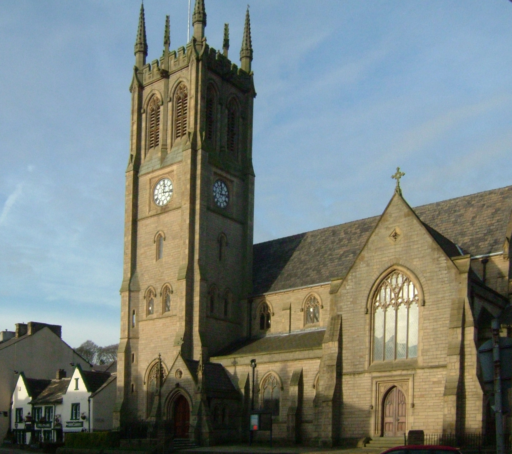 St Leonard's Church Padiham . Note image incorrectly named as St Matthew's